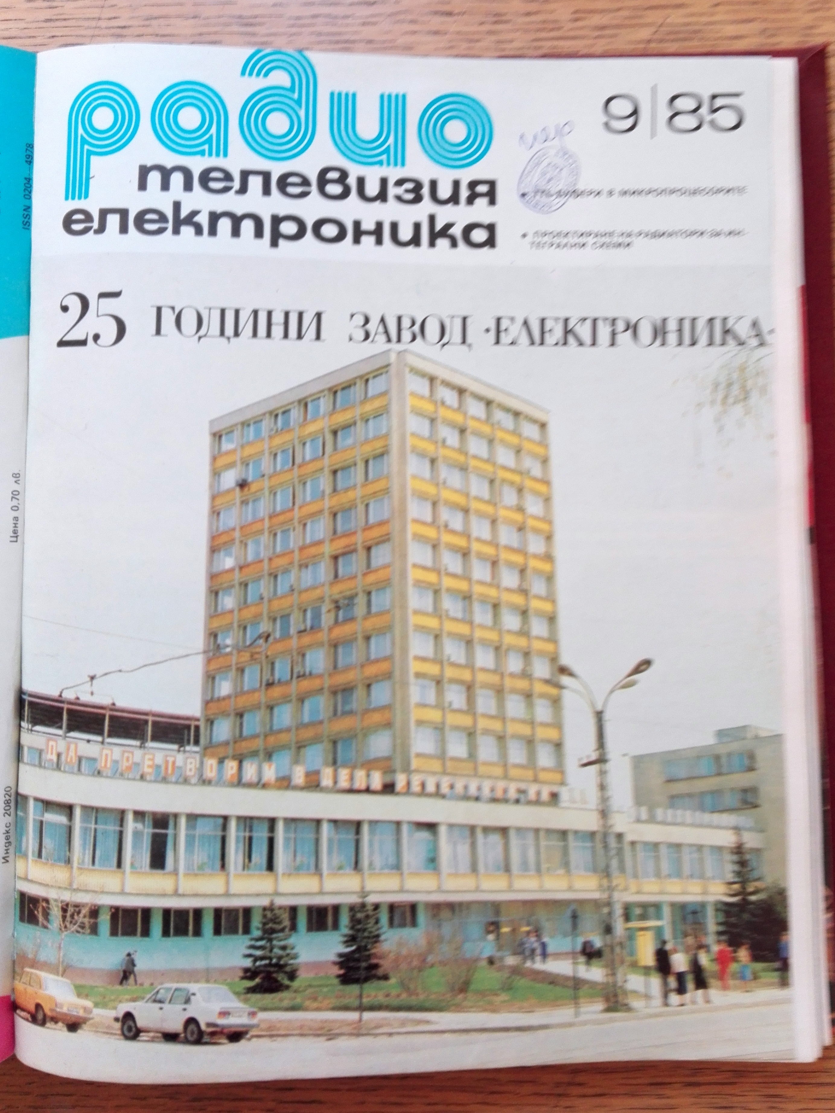 Front cover of Bulgarian journal Radio, television, electronics, issue 9 from 1985